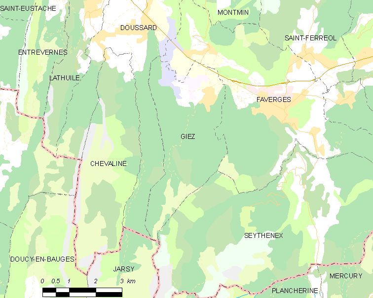 Map of French municipality Giez